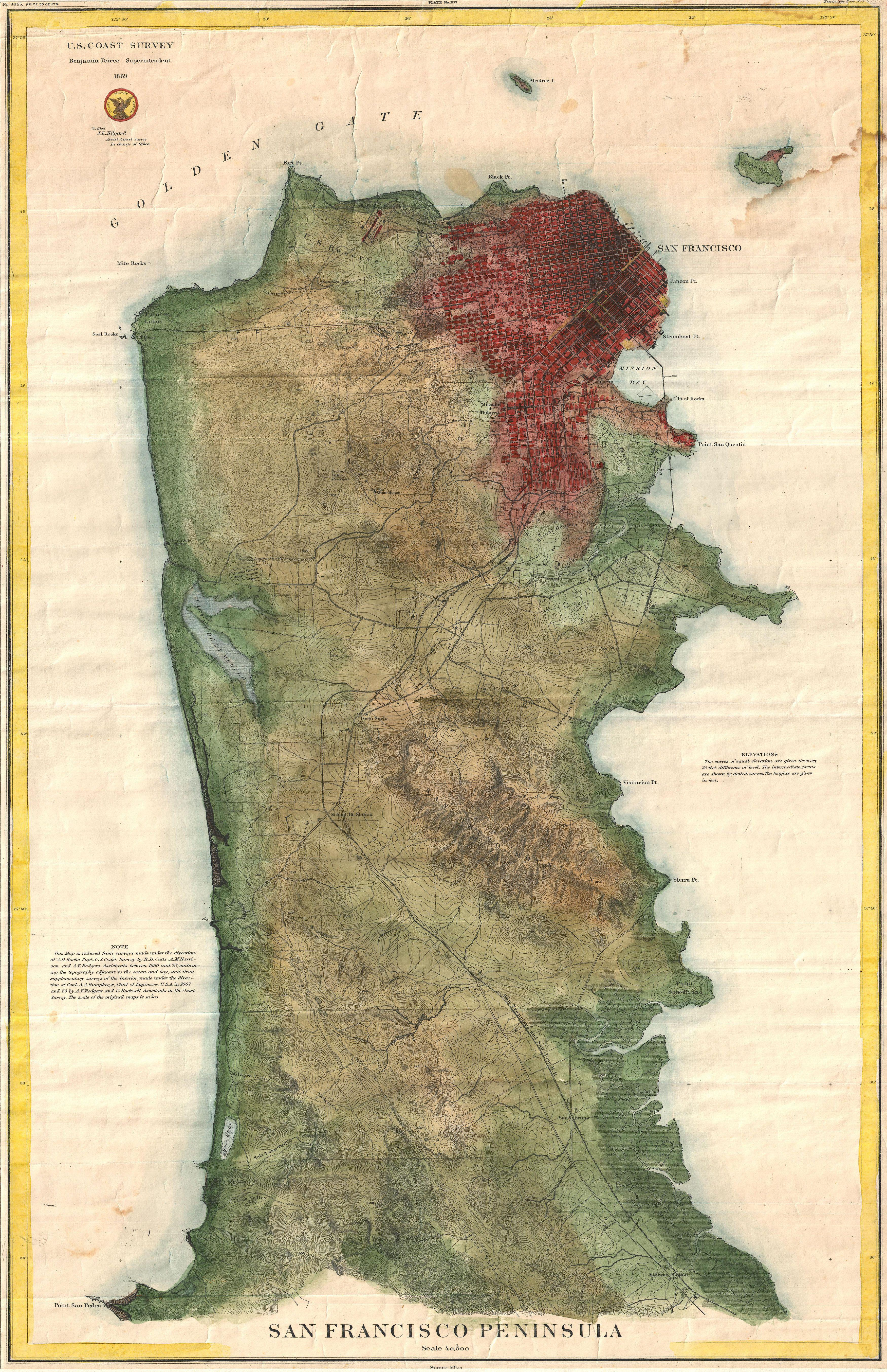 A rare 1869 U.S. Coast Survey chart or map of San Francisco Peninsula. This map depicts the city of San Francisco and surrounding areas as far south as San Pedro and Millbrae Station. The San Francisco – San Jose Railroad, the first to link the port of San Francisco to the major inland rail yards in San Jose, is clearly noted. This island Alcatraz is also noted with some of its early military fortifications evident. This chart is of significance not only for its stunning detailed mapping of the San Francisco Peninsula, but also because it is one of the first U.S. Coast Survey charts use contour lines to depict topography. The convention would, in subsequent years be adopted by the U.S. Geological Survey – a late 19th century offshoot of the U.S. Coast Survey. This stunning example of the Coast Survey’s work at its finest was completed under the supervision of A. D. Bache by R. D. Cutts, A. M Harrison, and A. F. Rodgers between 1850 and 1857. It is of note that this example of the maps was not issued as part of the U.S. Coast Survey Annual Report, but rather is an independent issued chart on thick stock.